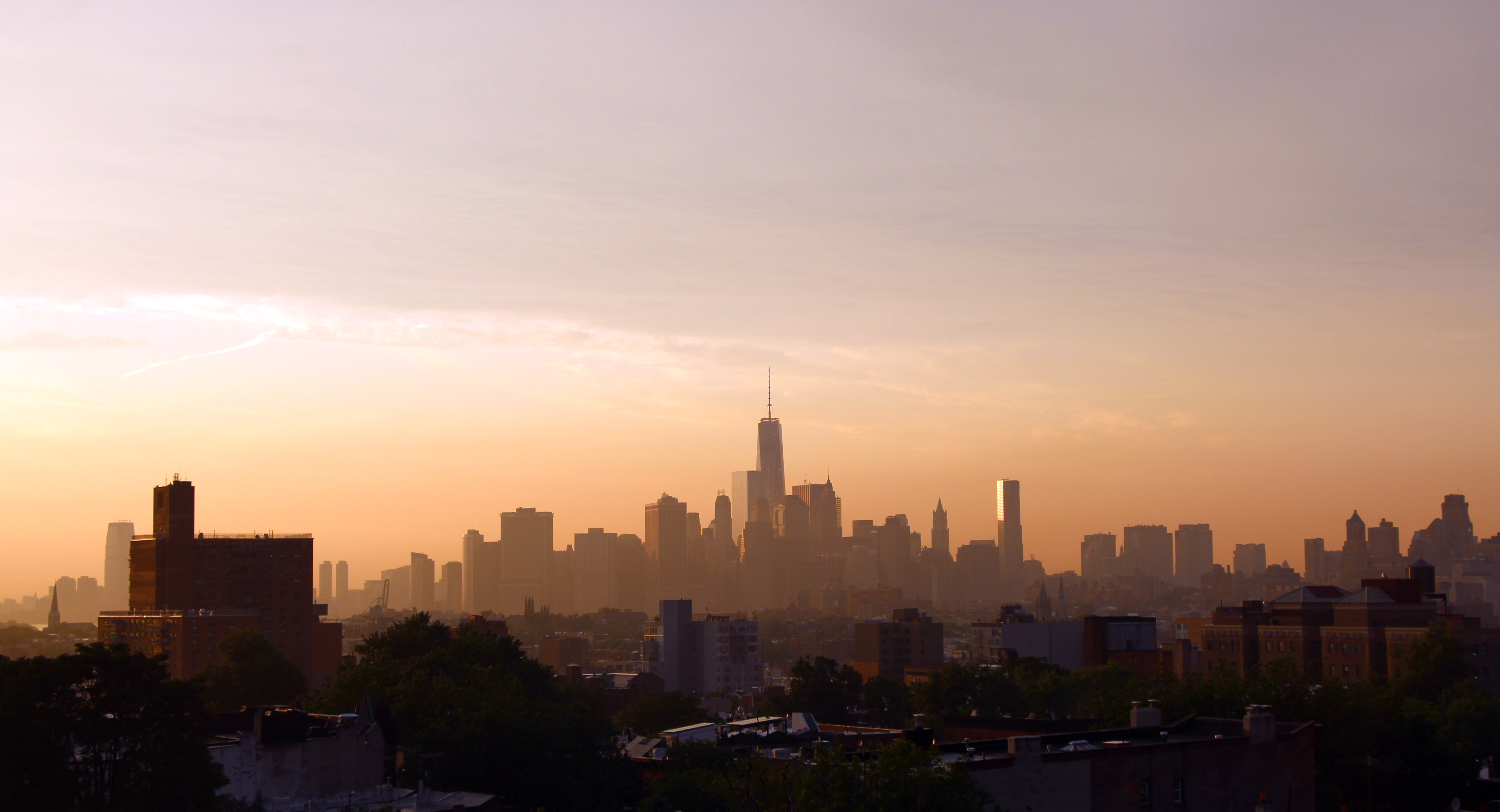 Lower Manhattan skyline as seen from Brookyn, early June 2014.